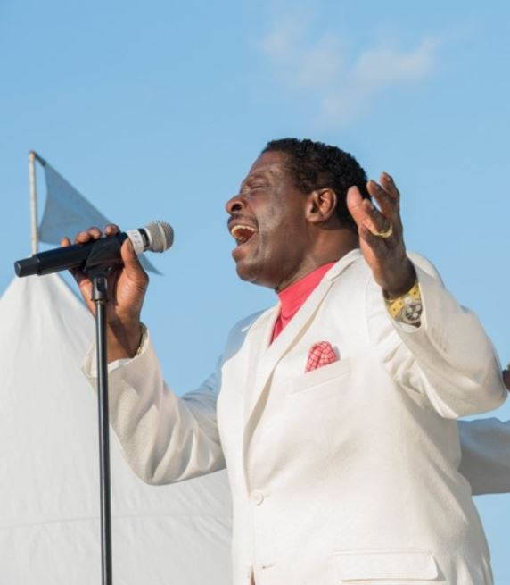 Gerald Alston on Stage at Gardner's Basin in Atlantic City